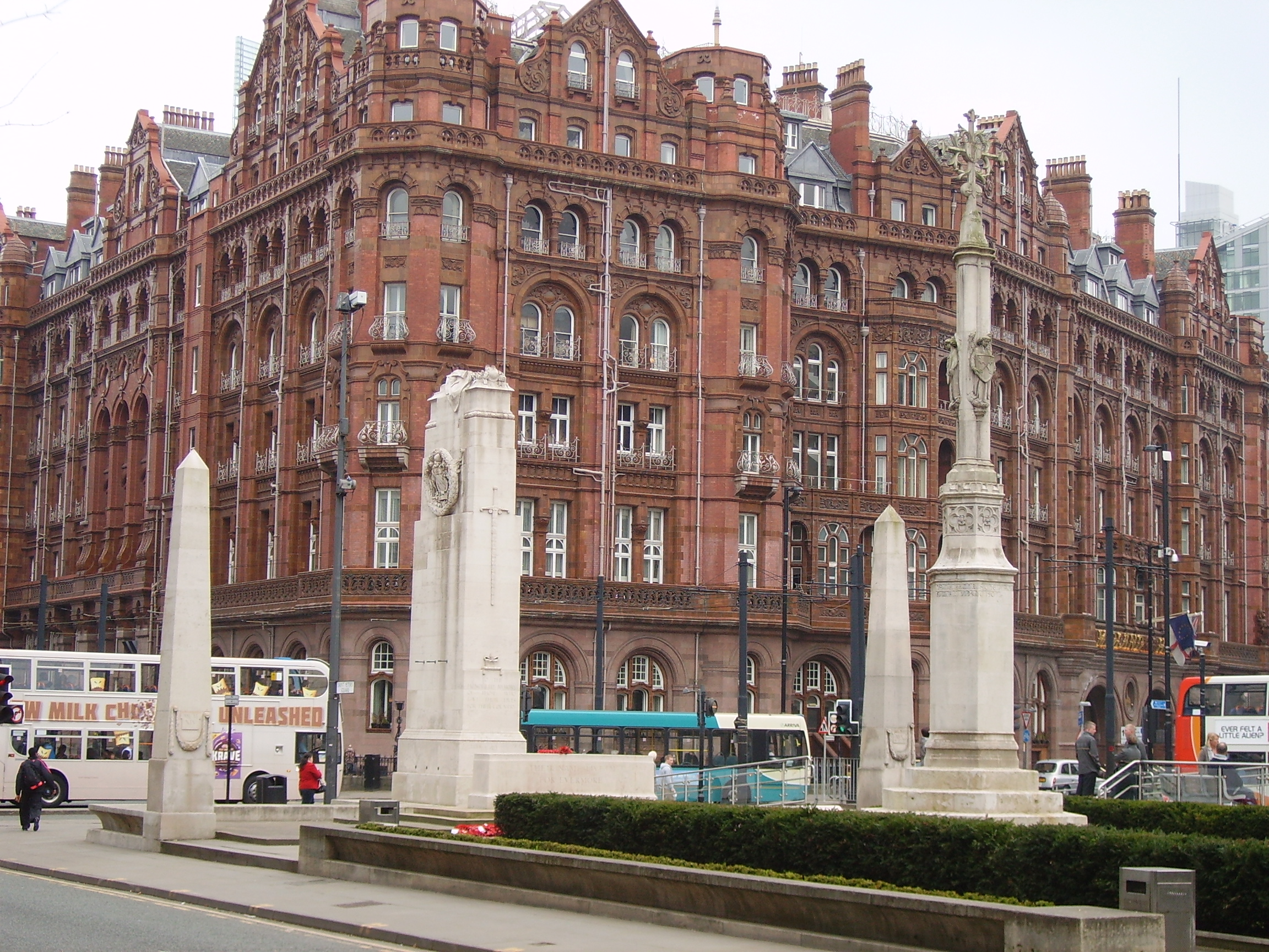 Manchester Cenotaph in its original position